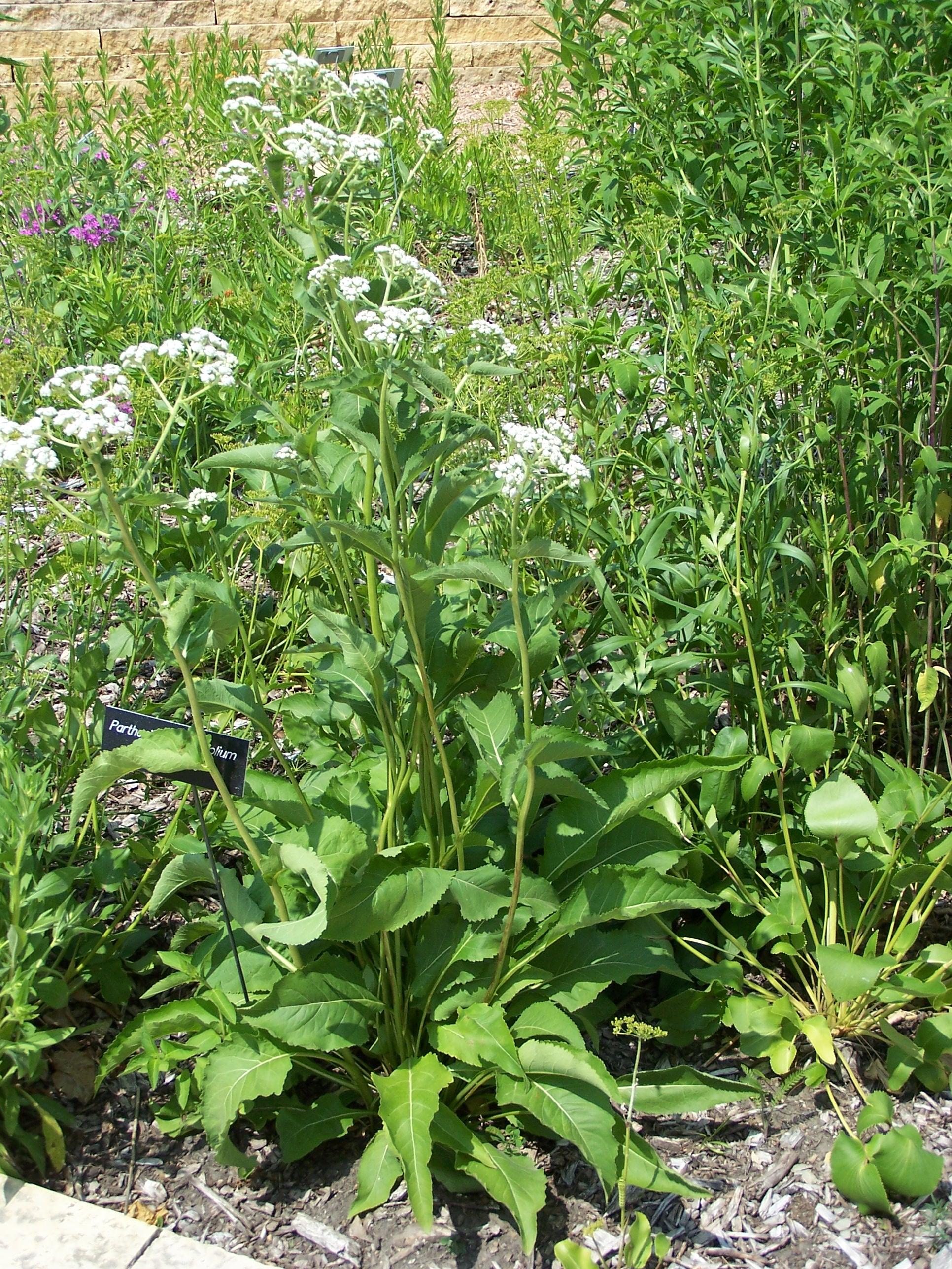 Parthenium_integrifolium, Wild Quinine at Minnesota Landscape Arboretum